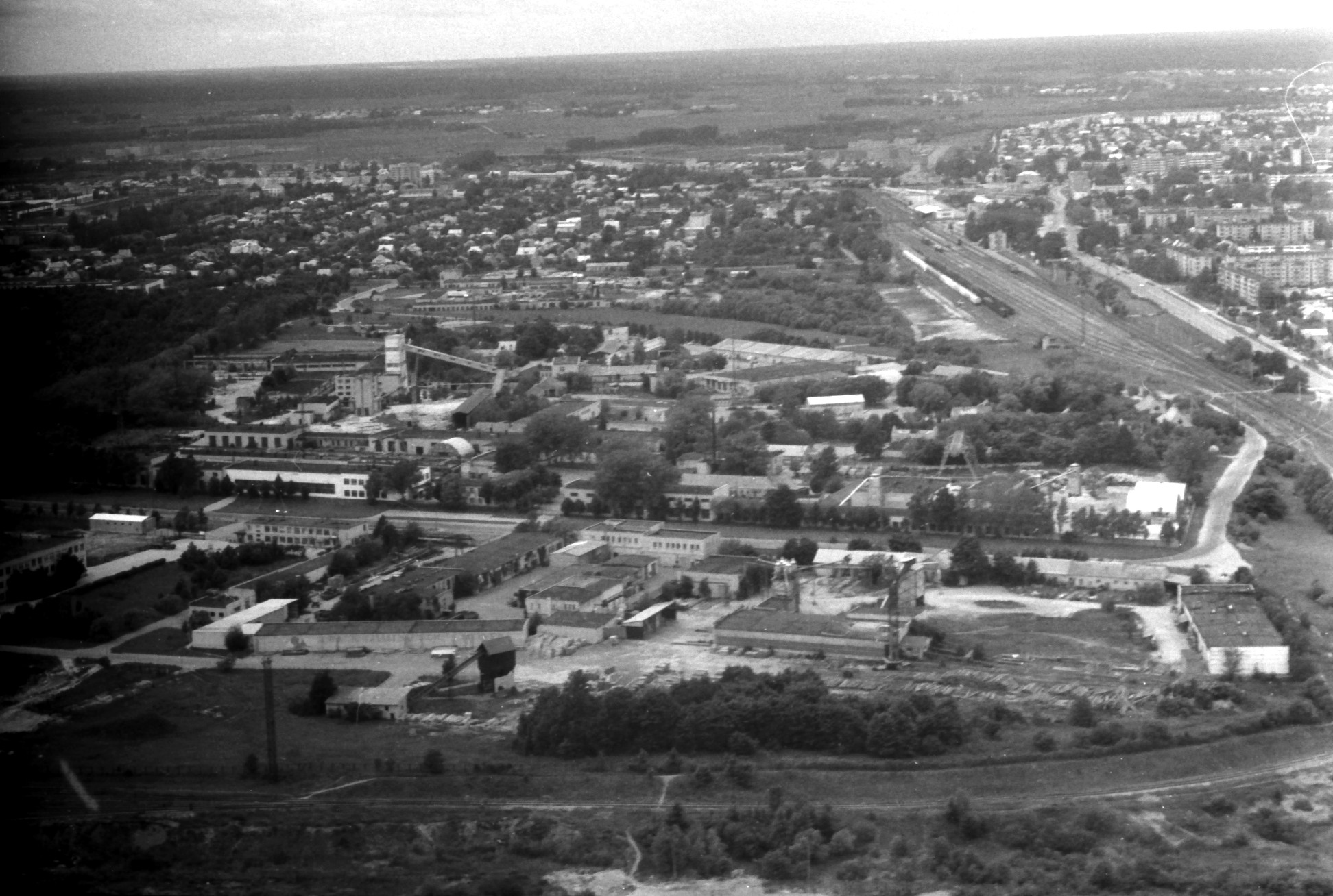 Aerial photographs of Šiauliai, 1996, Lithuania